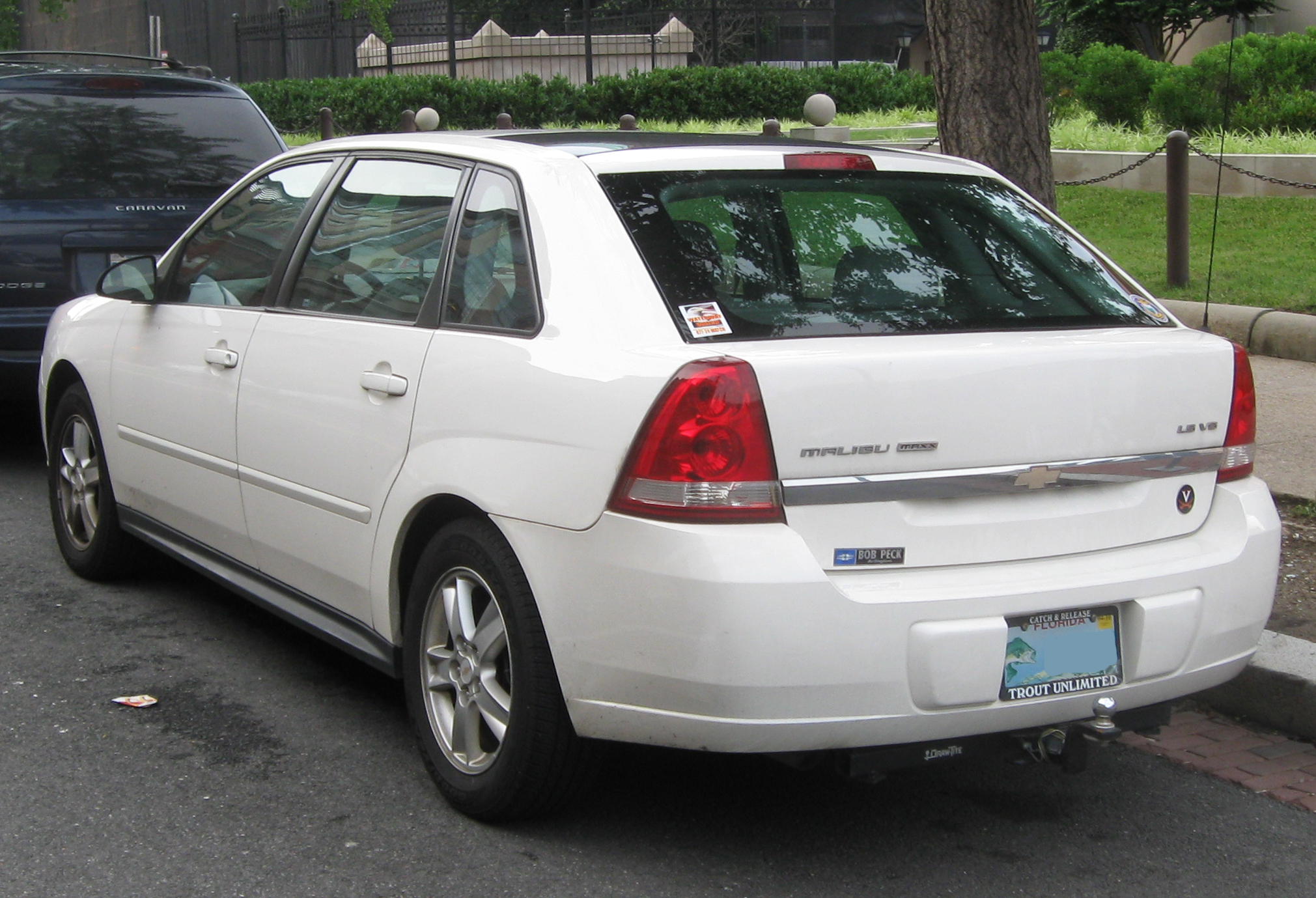 2004-2005 Chevrolet Malibu Maxx photographed in Washington, D.C., USA.